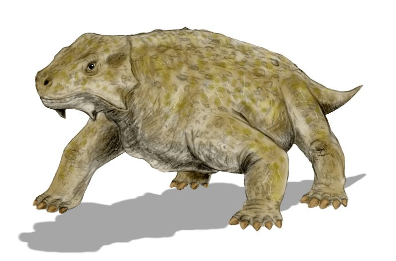 Bradysaurus baini, a pareiasaur from the Upper Permian of South Africa, pencil drawing